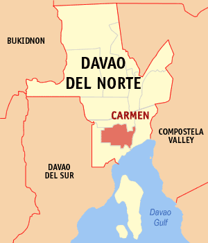 Map of the Davao del Norte showing the location of Carmen